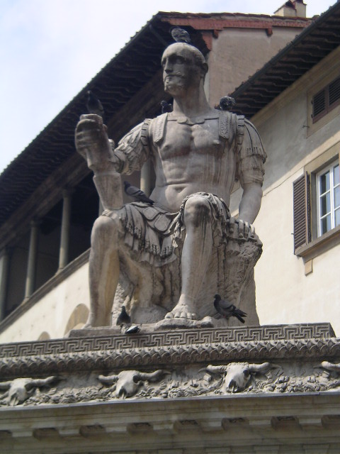 The monument to condottiero Giovanni dalle Bande Nere (Giovanni de' Medici, father to Cosimo I de' Medici), was sculpted by Baccio Bandinelli in 1540 and stands in Piazza san Lorenzo square in Florence. Left incomplete for a long time (the statue was in Palazzo Vecchio) it was completed at last in 1850.